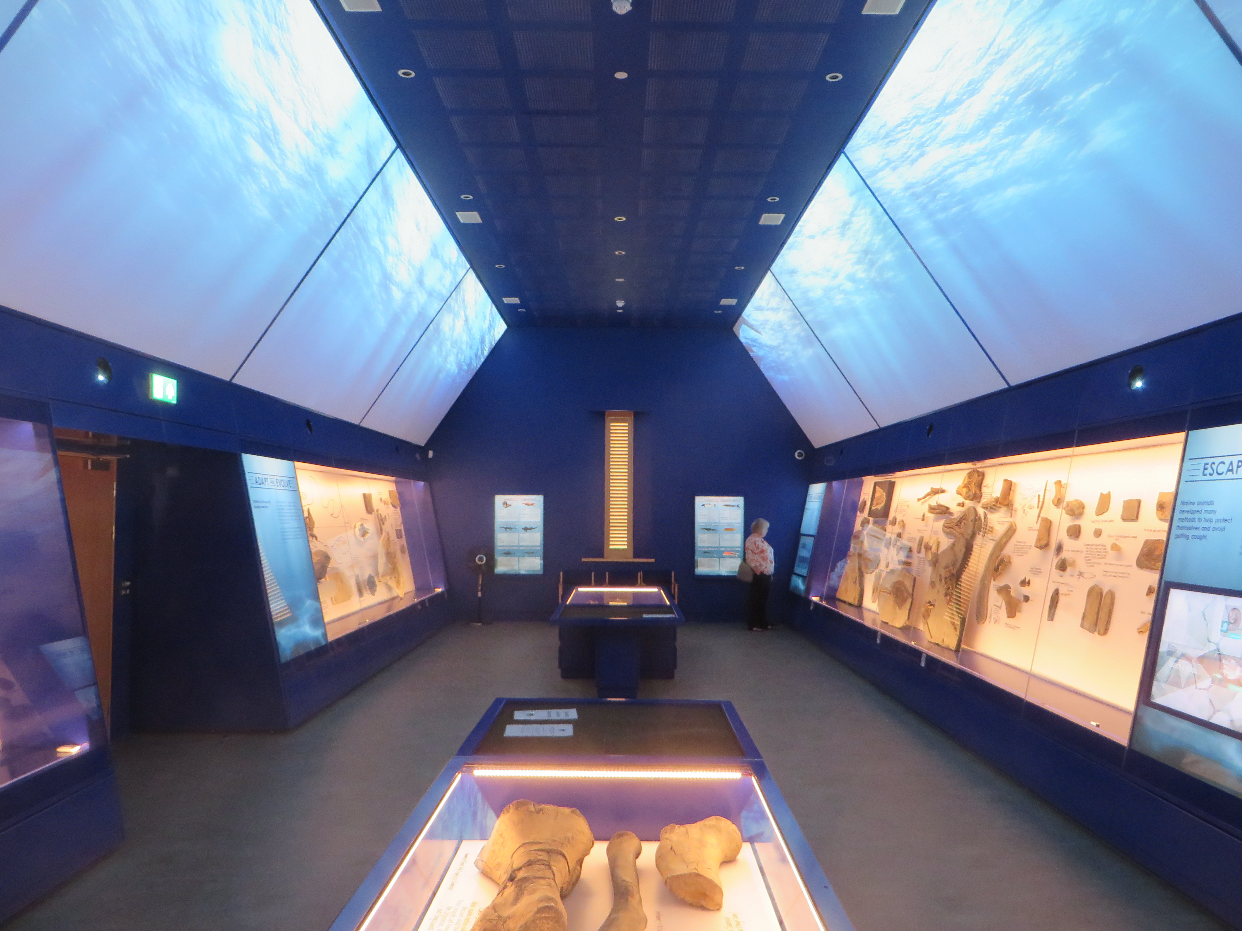 View of the main gallery in The Etches Collection, Kimmeridge, Purbeck, Dorset, England.